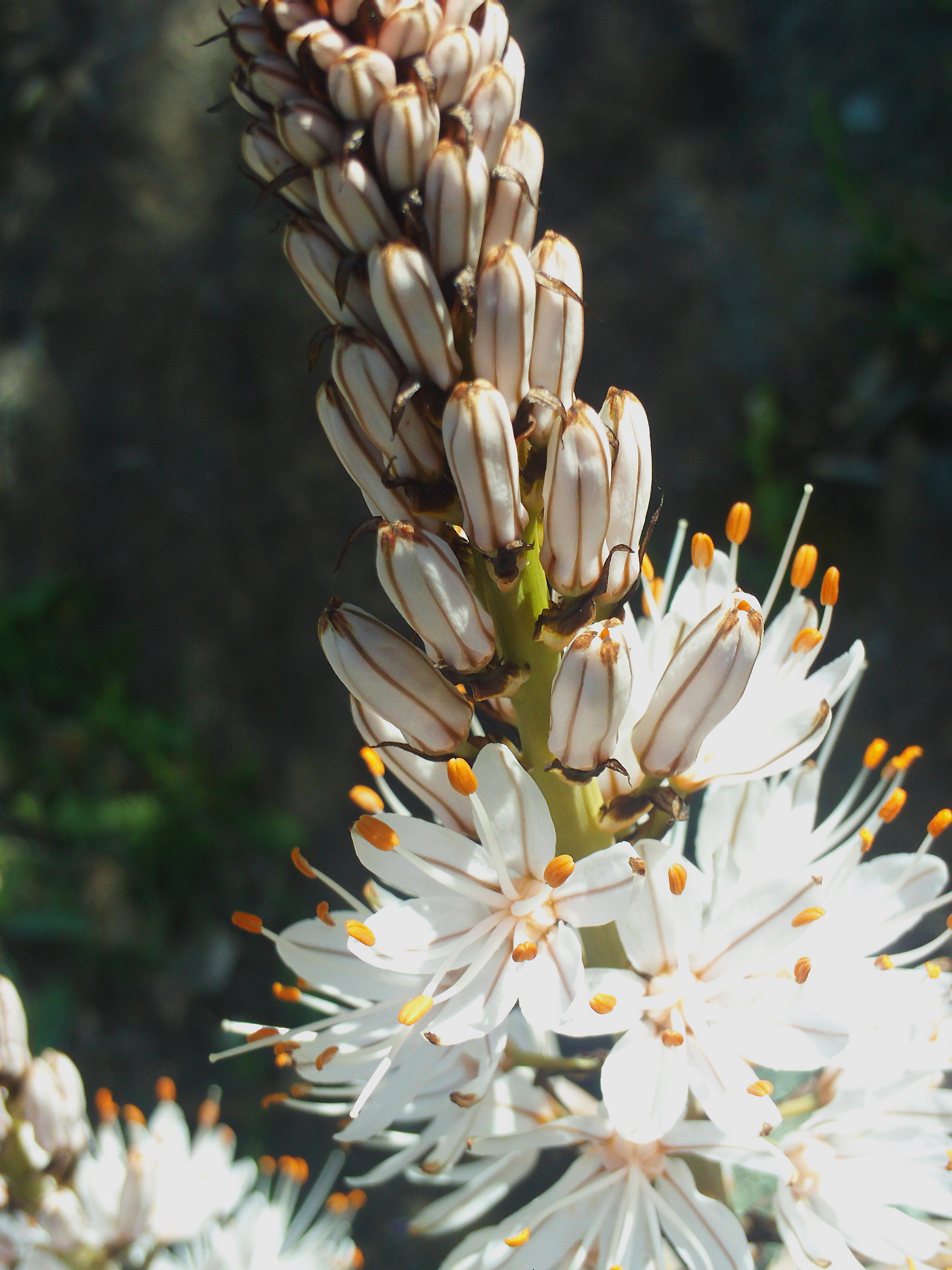 Asphodelus albus flowers close up, Sierra Madrona, Spain